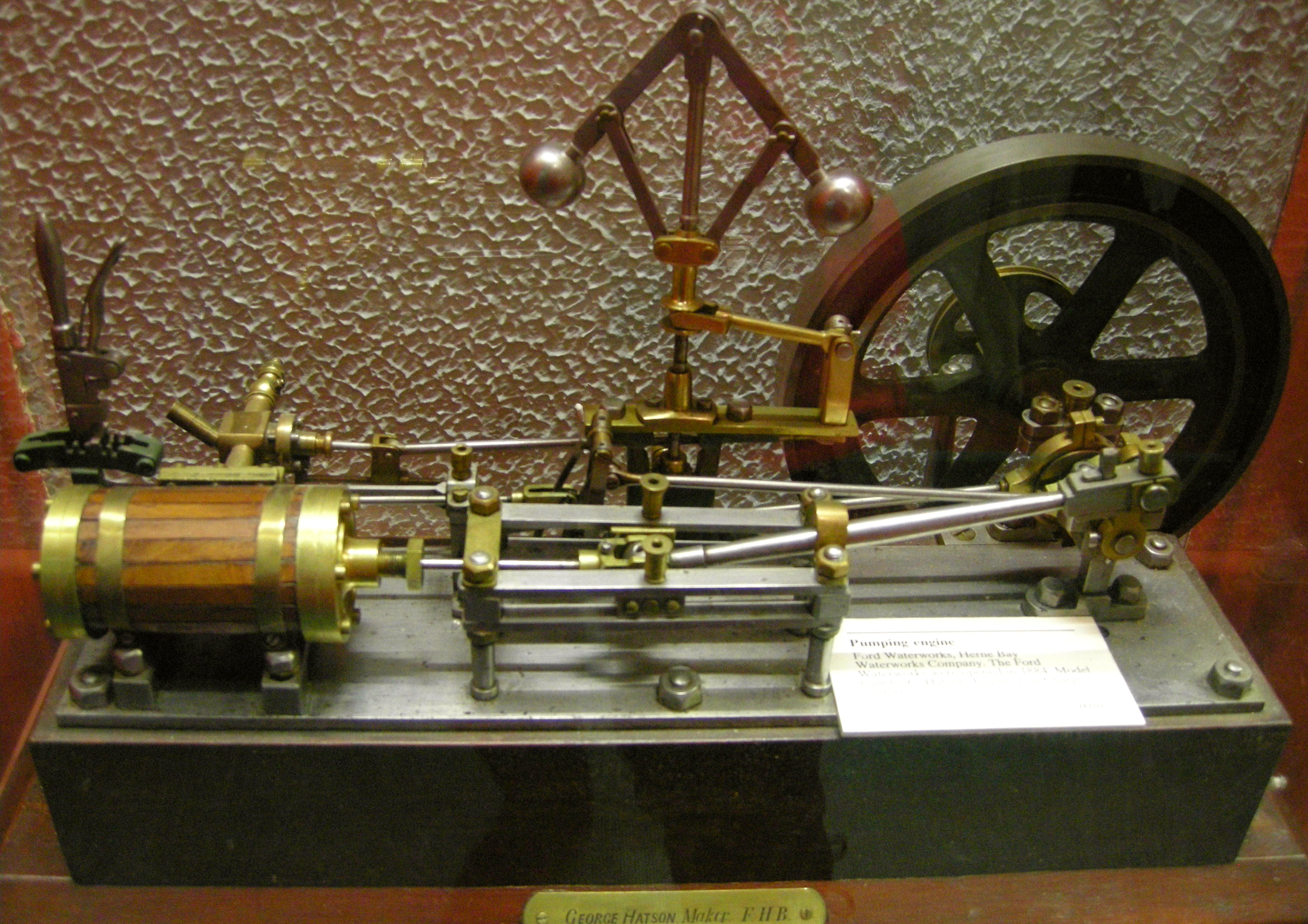 Model of waterworks pumping engine dated 1880s at Herne Bay Museum and Gallery.